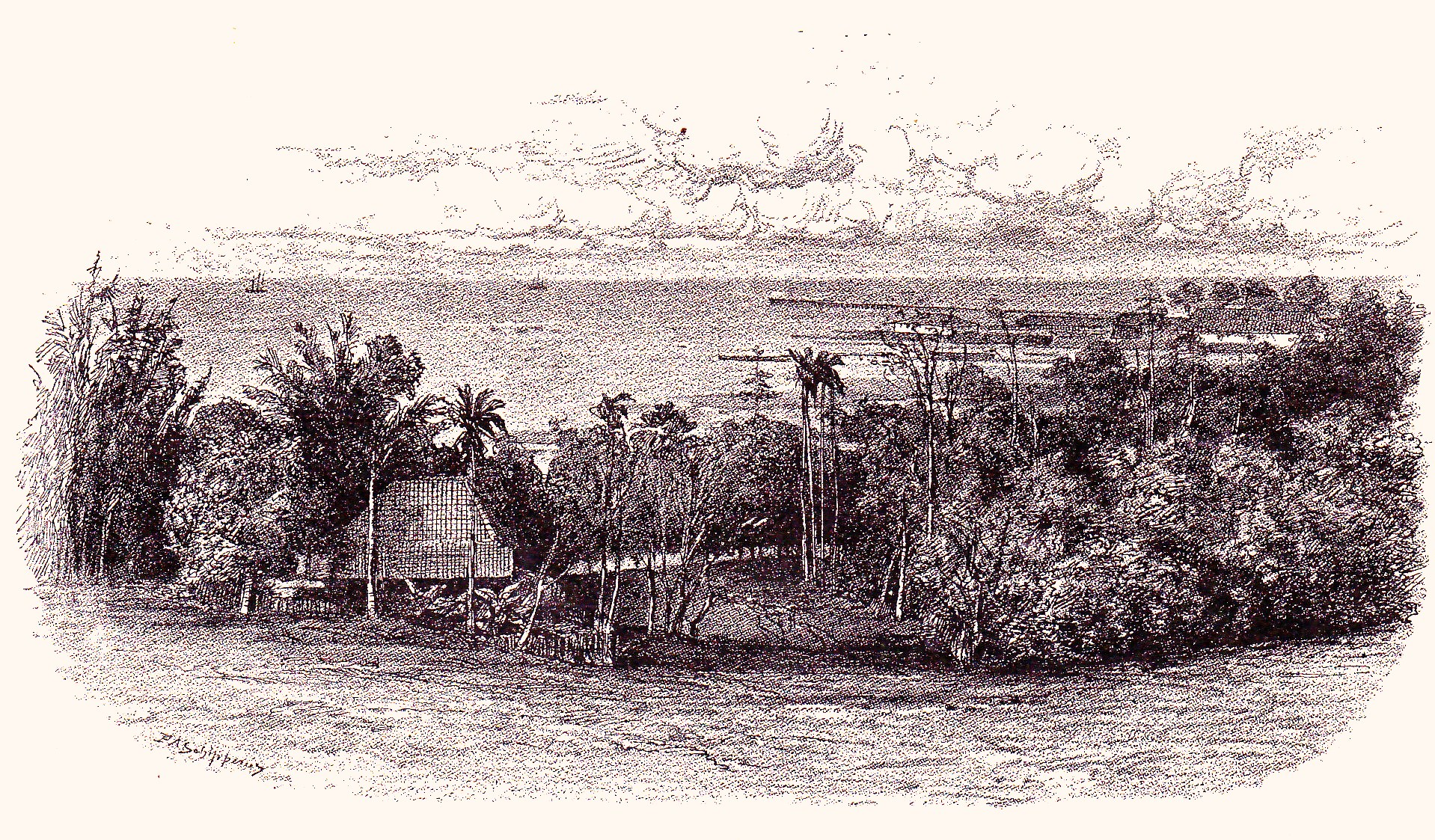 Rede van Muntok en strand tussen Banka en Palembang